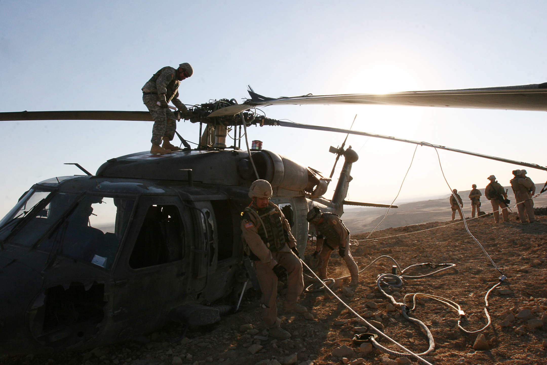 Service members with Helicopter Support Team, Combat Logistics Battalion 1, Combat Logistics Regiment 1, 1st Marine Logistics Group (Forward), secure a damaged Black Hawk helicopter while engaged in a helicopter recover mission in Al Anbar Province, Iraq. The hand-picked, seven-member team is always on call. As soon as they hear the news of a downed helicopter, they gear up and go. The team�s primary mission is to lead planes down the runway and ensure they make it to their destination, but while on recovery operations, they have successfully rescued four helicopters since arriving here spring 2006. �It is an adrenaline rush,� said Cpl. Levi M. Gubbels, 22, team leader of HST. �It�s something that everyone in our (military occupational specialty) loves to do every single opportunity.�